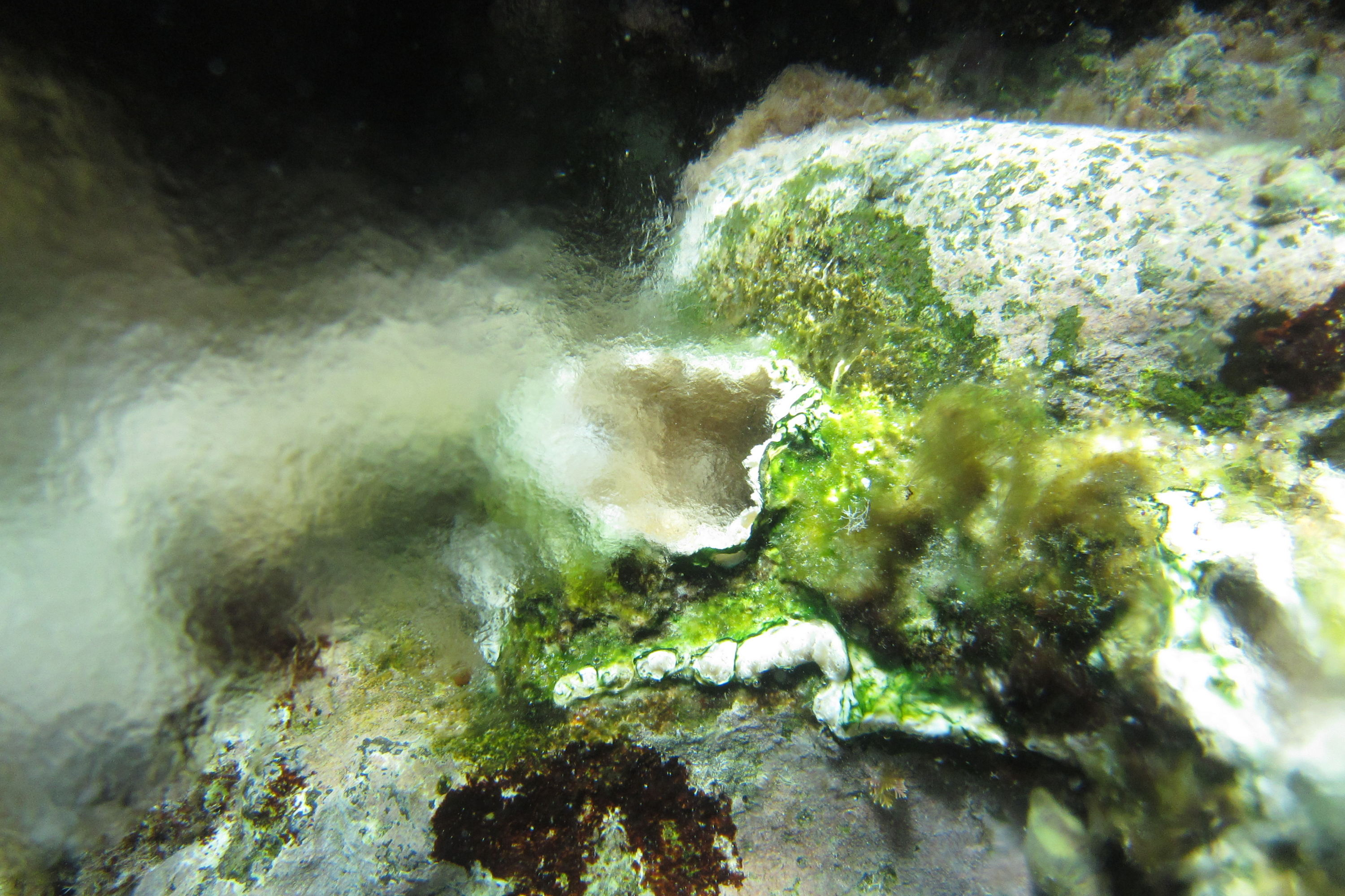 Scuba photo of the hot submarine spring at Nikà, Pantelleria